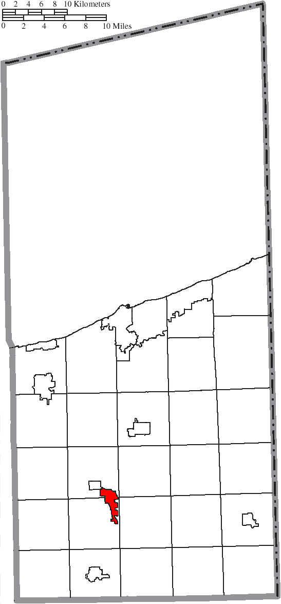 Map of the municipal and township boundaries of Ashtabula County, Ohio, United States, as of the 2000 census, with the location of the village of Roaming Shores highlighted. Township borders are shown only in unincorporated areas in order to differentiate incorporated and unincorporated areas more clearly.